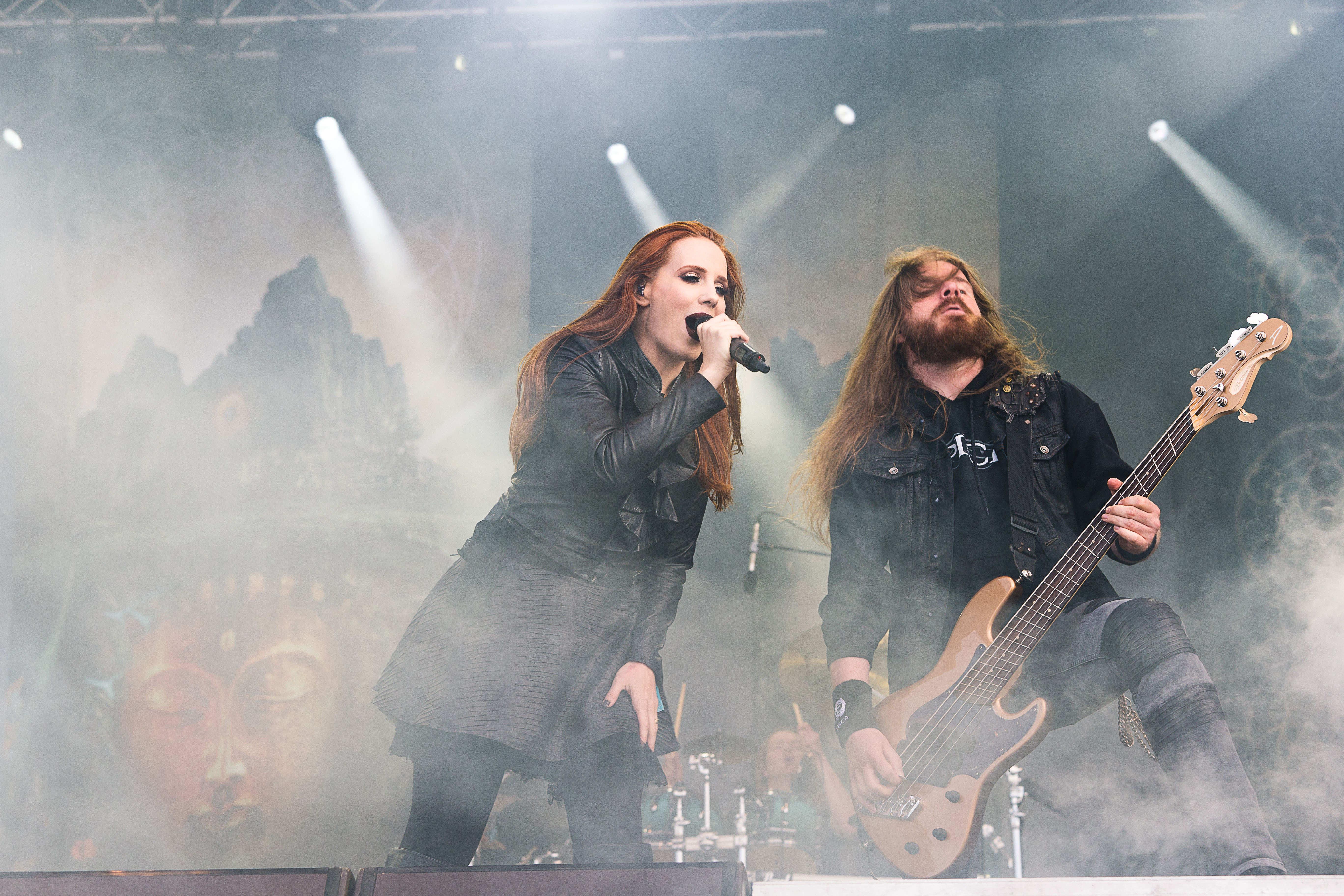 The Dutch symphonic metal band Epica at the Rockharz Open Air 2015 in Ballenstedt/Germany.